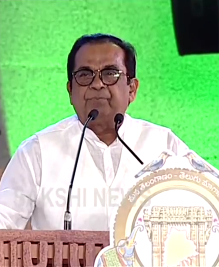 Brahmanandam at World Telugu Conference.